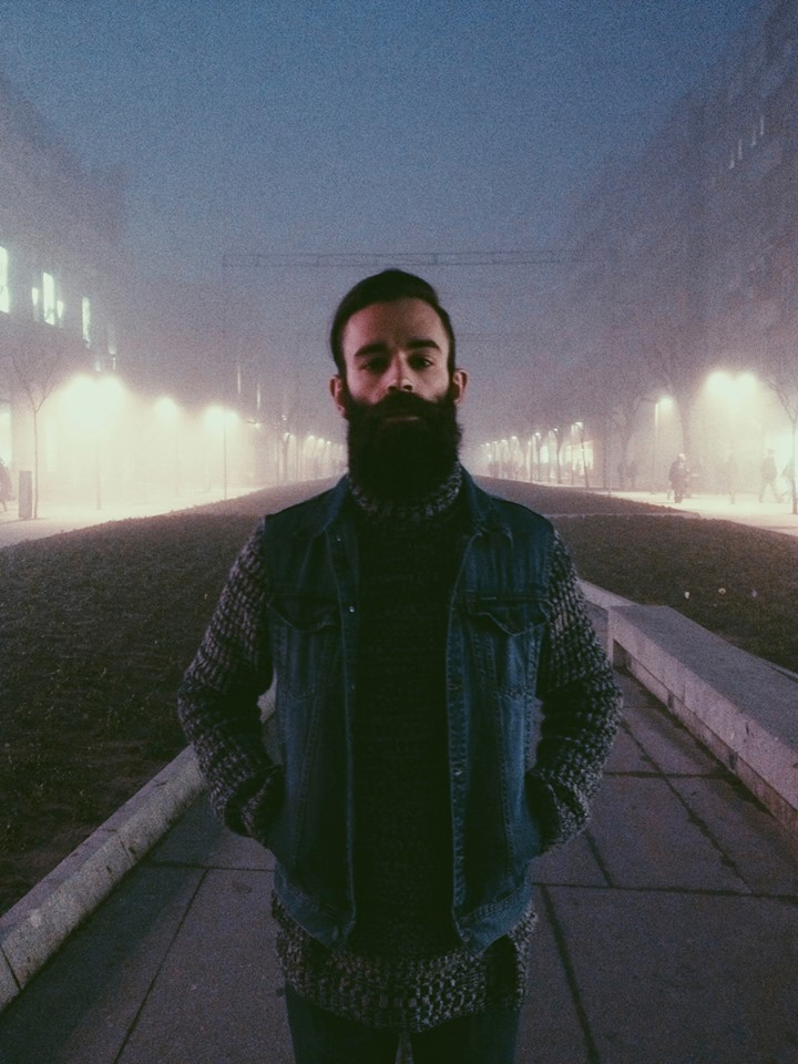 A bearded man on a street in Portugal.